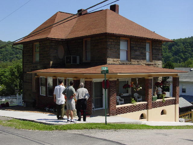 James Parreco house in Greensboro, PA. Photo taken in Sept. 2001.